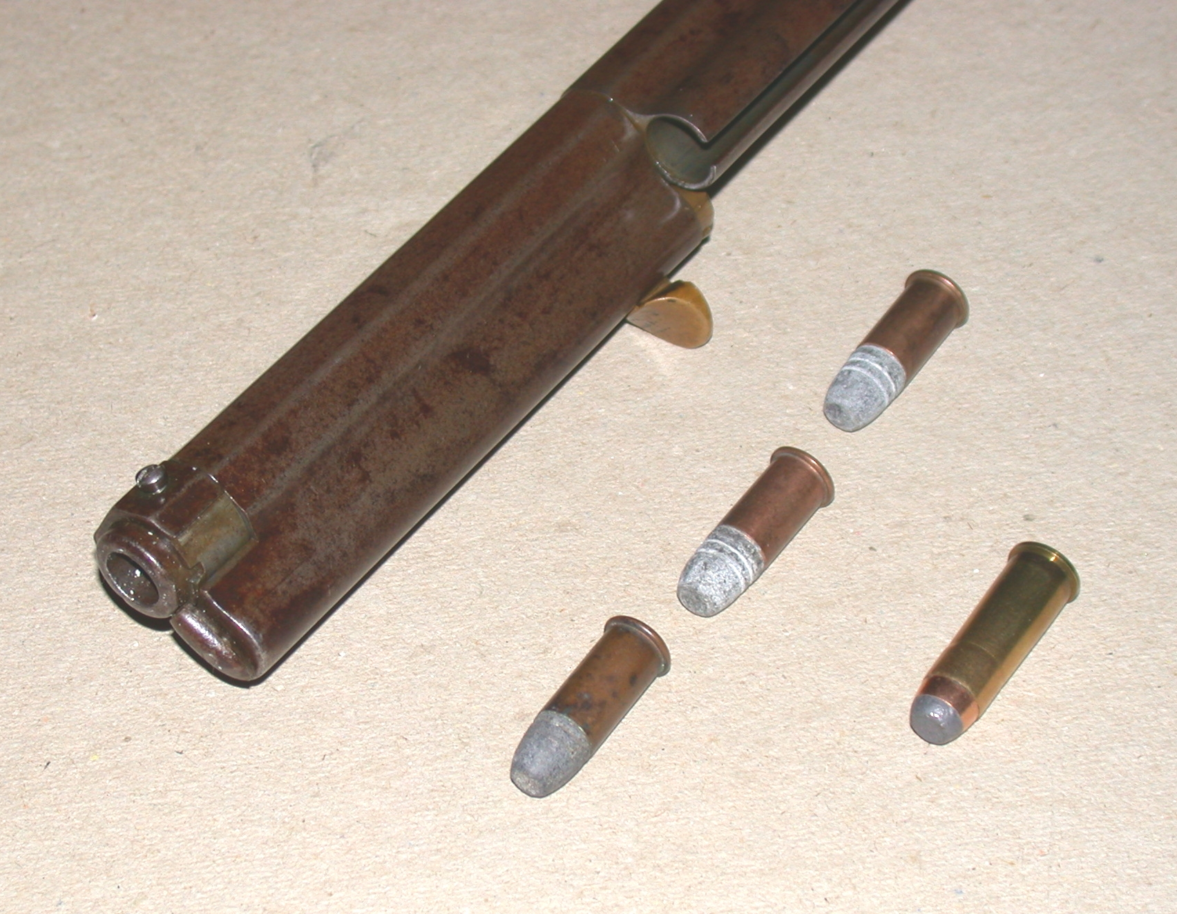 Mod 60 Henry rifle, magazine open for loading; 3 Henry rounds, one round 44-40 to compare